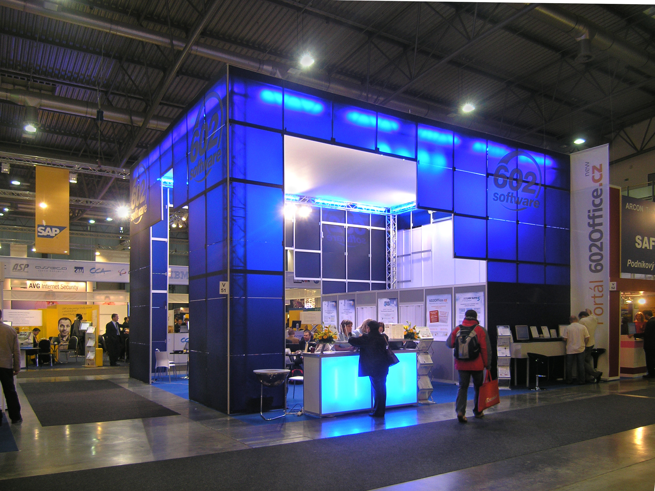 Invex exhibition in Brno, stand of Software602 company